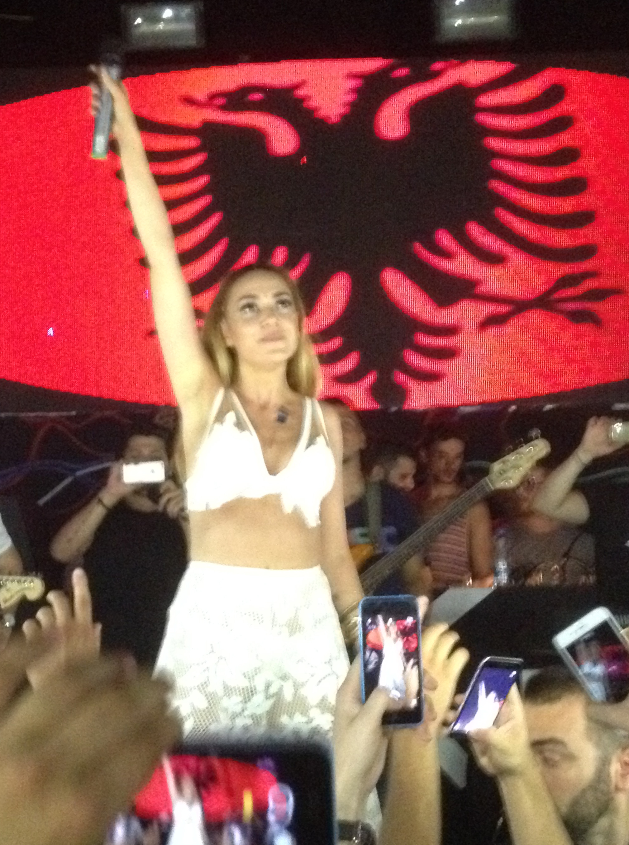 Albanian pop singer Elvana Gjata during a concert at Zone Club in Prishtina, Kosovo.